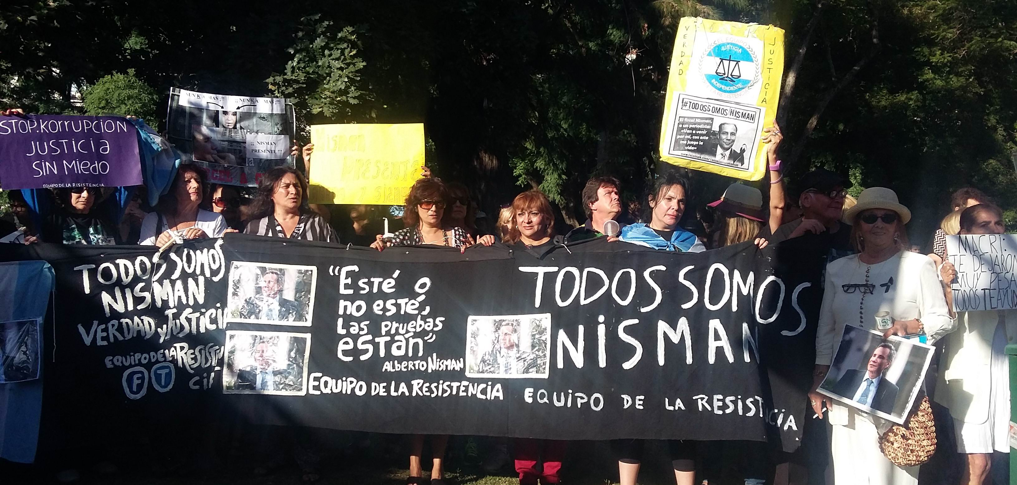 Protest march in Buenos Aires 1 year death anniversary of Alberto Nisman